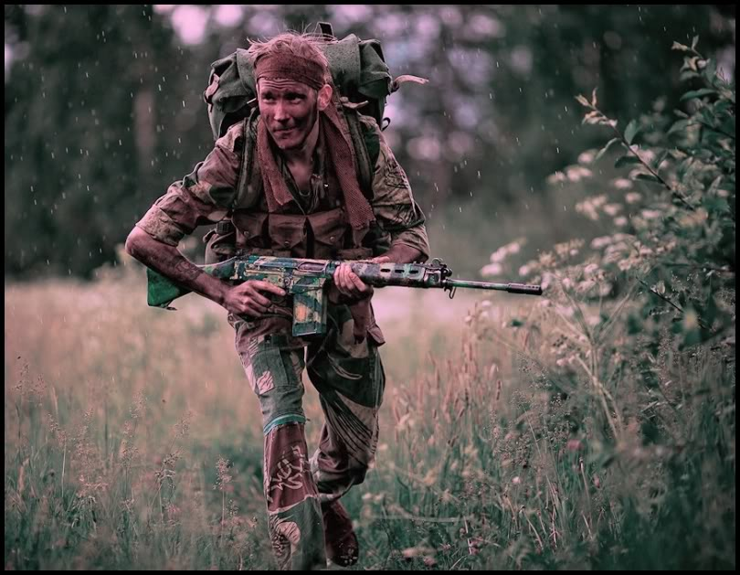 A modern re-enactor, Stefan Melander, simulates a Rhodesian Light Infantry soldier from 1979, wearing appropriate uniform and carrying appropriate gear. Photograph taken by Samu Hupli.